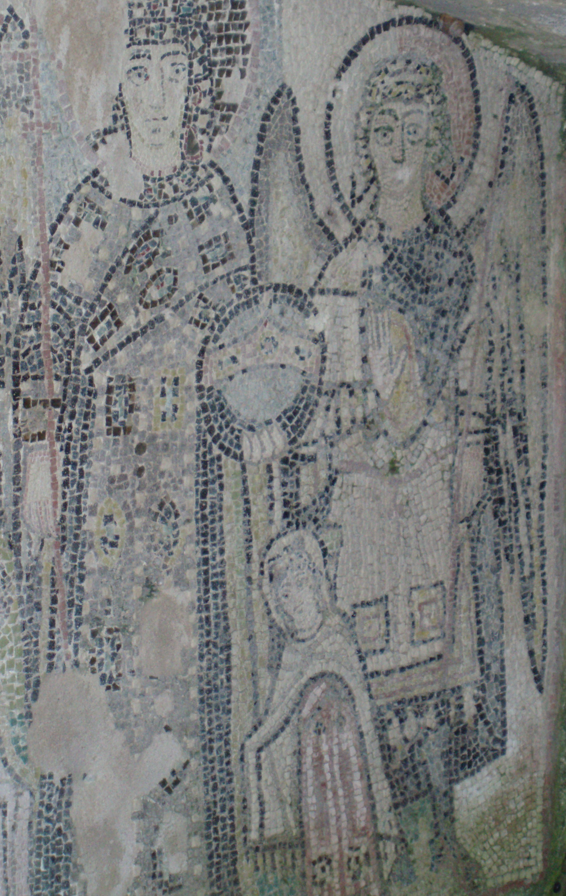 Old christian basilica under the amphitheater in Durrës, Albania. Palaeochristian mosaic.